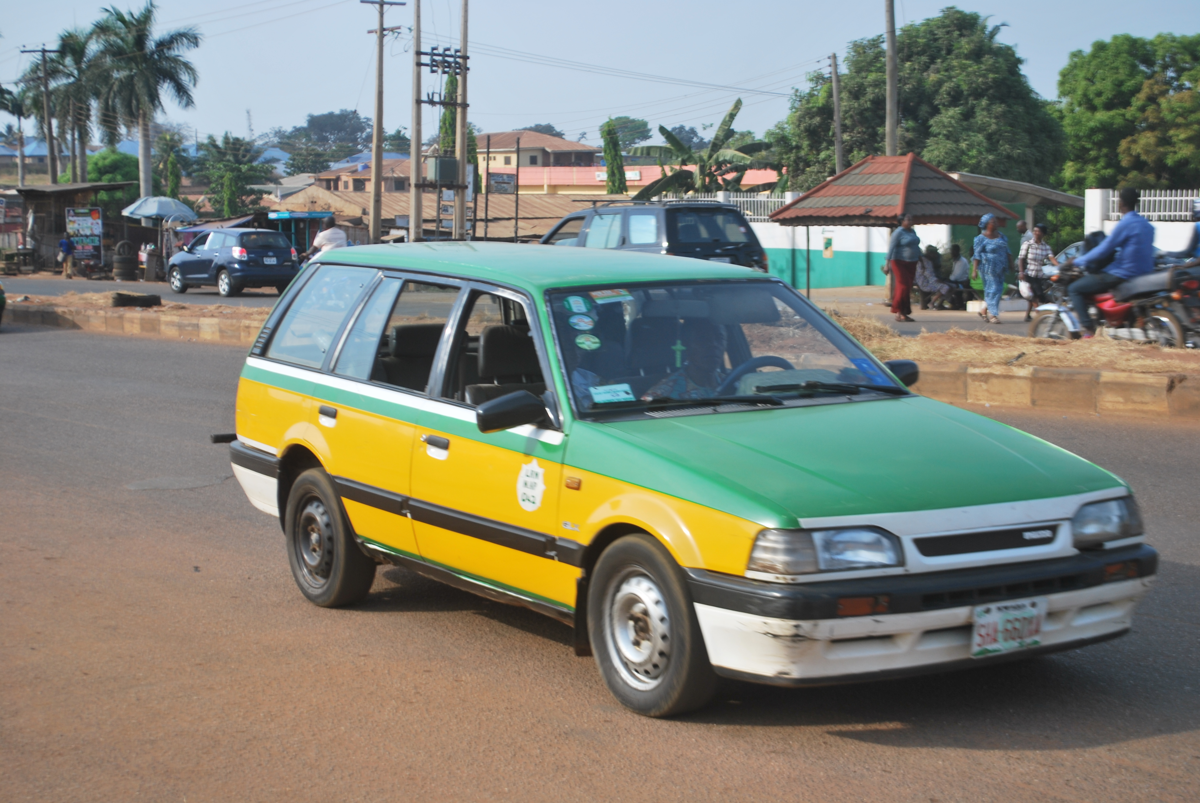 This is an image of "African people at work" from Nigeria